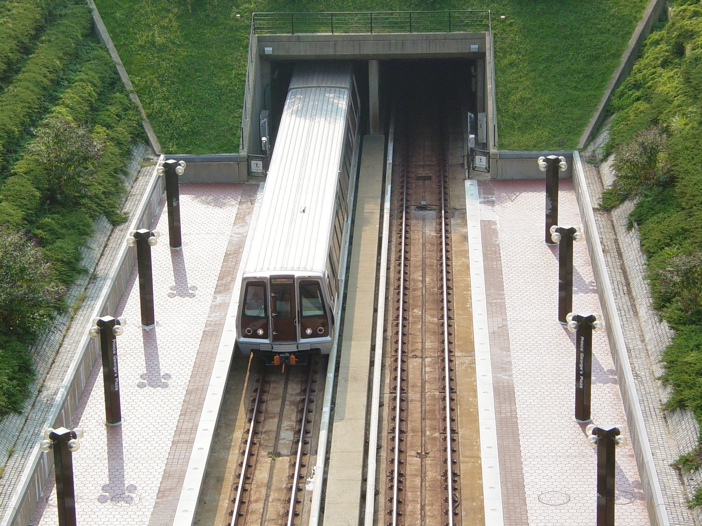 Prince George's Plaza Metro station, photographed by Ben Schumin on August 18, 2004.